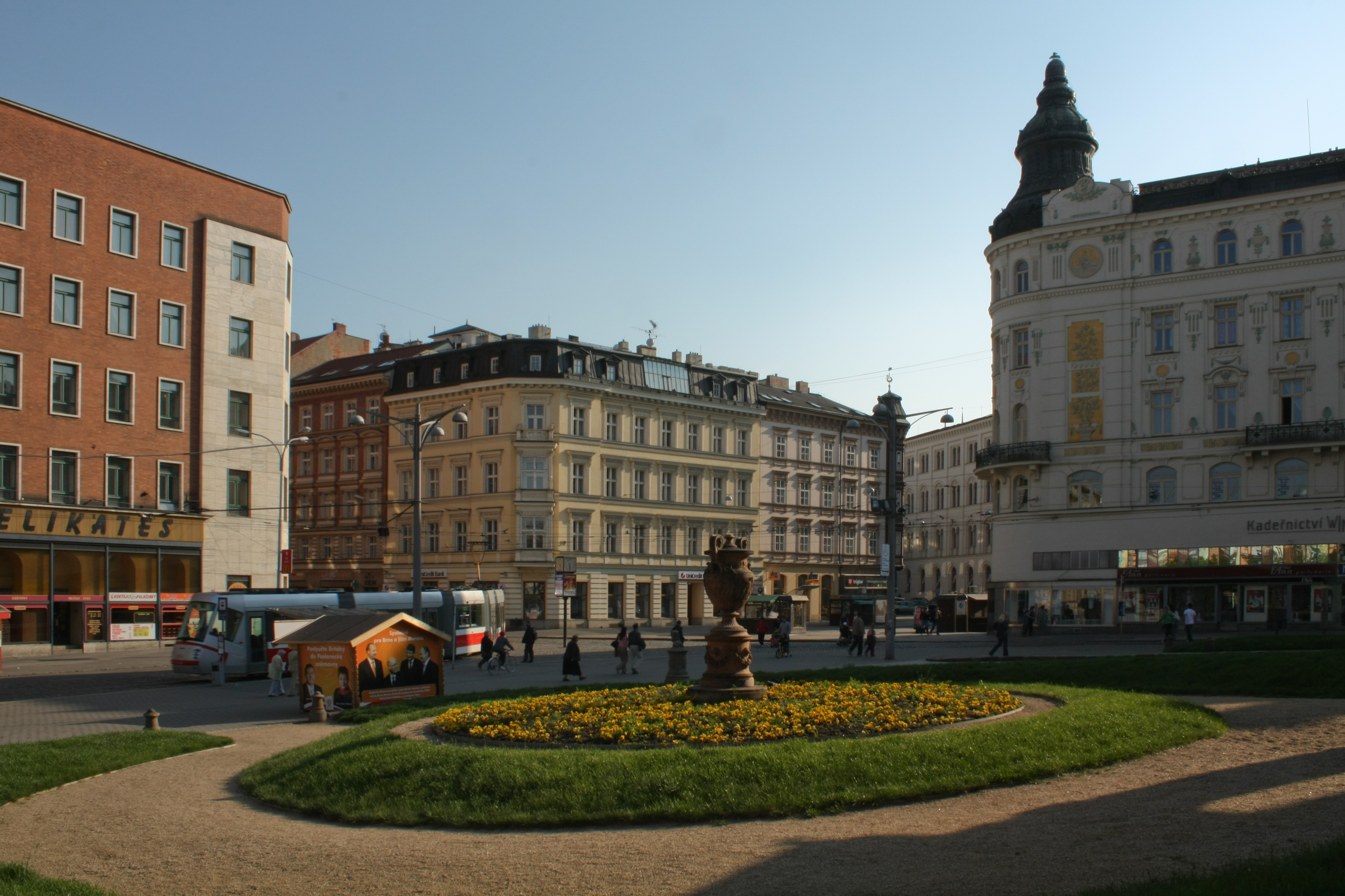 Malinovský square, Brno, Czech Republic